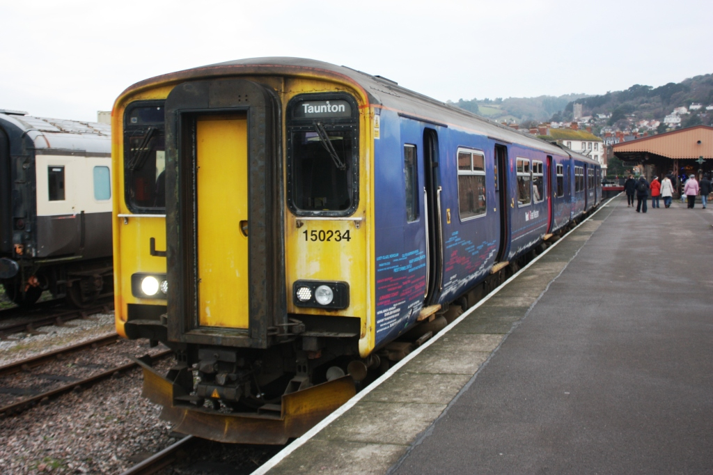 First Great Western DMU 150234 prepares to depart from Minehead station on the West Somerset Railway with a special service to Taunton to commemorate the 40th anniversary of the closure of the line by British Rail.